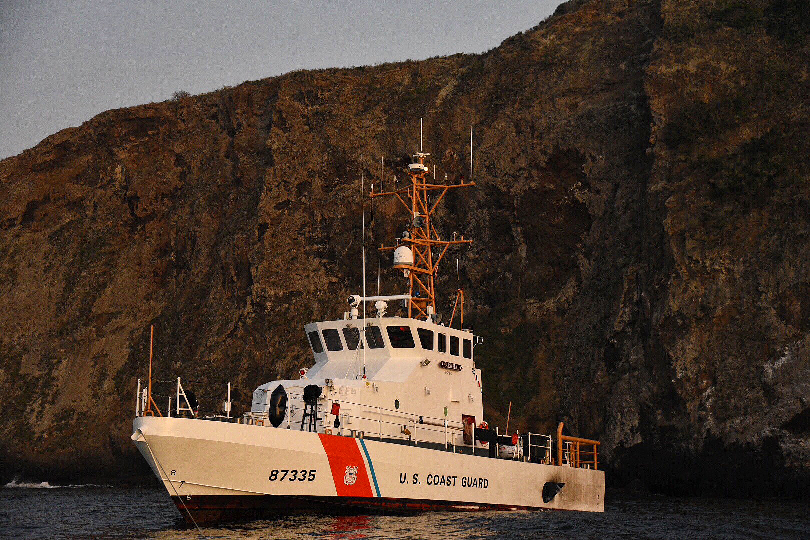 The Coast Guard Cutter Narwhal is shown off the coast of Santa Cruz Island Sept. 4, 2019. The Narwhal is one of many vessels from multiple agencies assigned by the Unified Command to assist with motor vessel Conception response efforts. (U.S. Coast Guard photo by Petty Officer 1st Class Patrick Kelley)